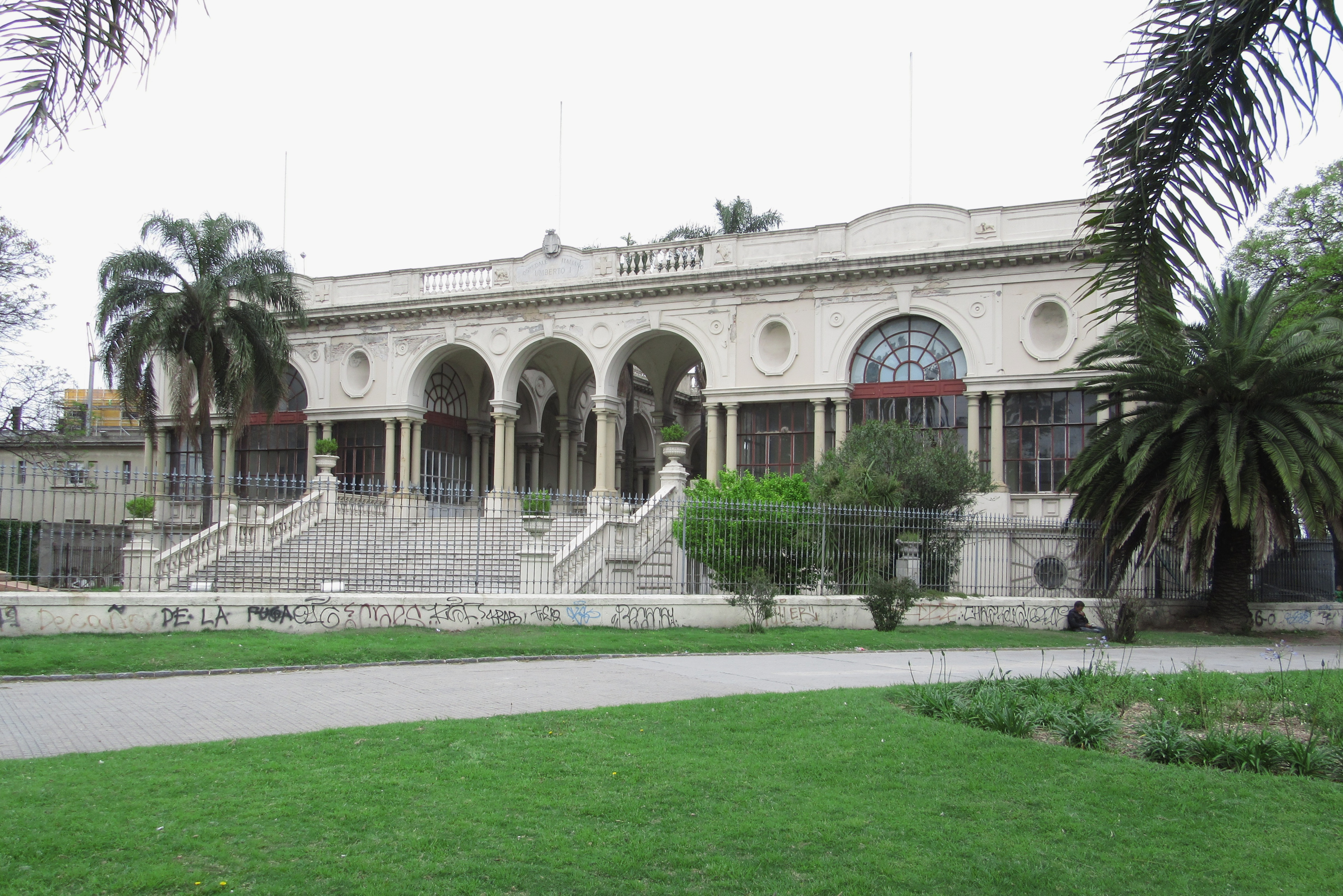 Montevideo